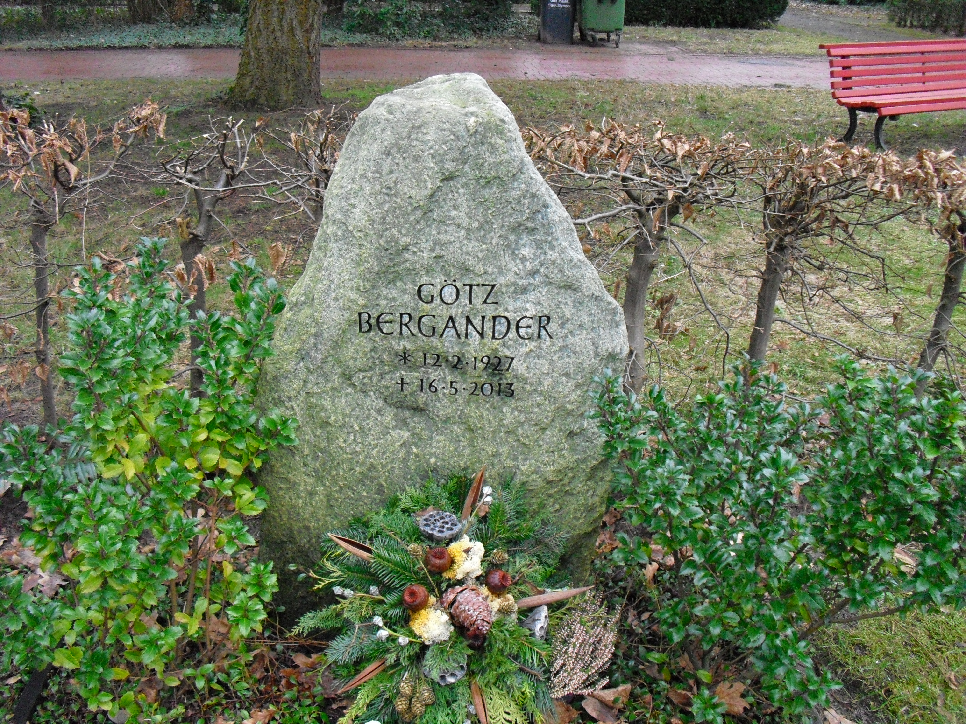 Grave of German journalist Götz Bergander in Friedhof Steglitz, Berlin.